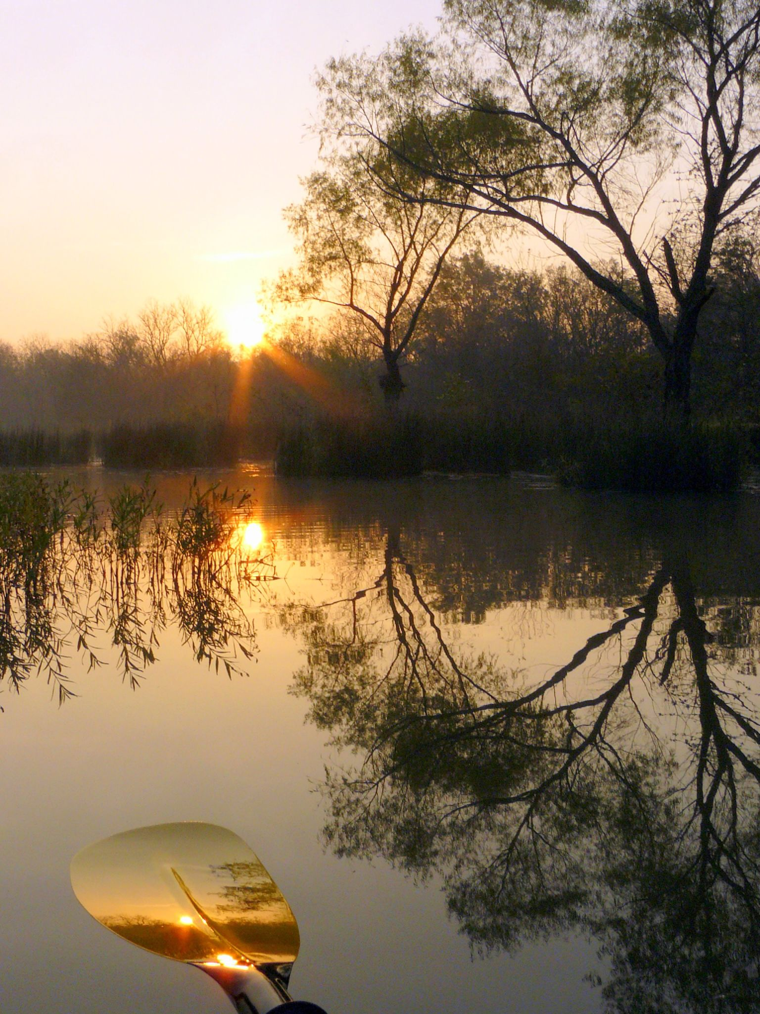 Kayaking in the Deep Fork National Wildlife Refuge near Okmulgee, Oklahoma. "I scooped up the sun with my dawn paddle. A taste of a misty morning, rich in golden sweetness lingers with me still." (orginal description from flickr)